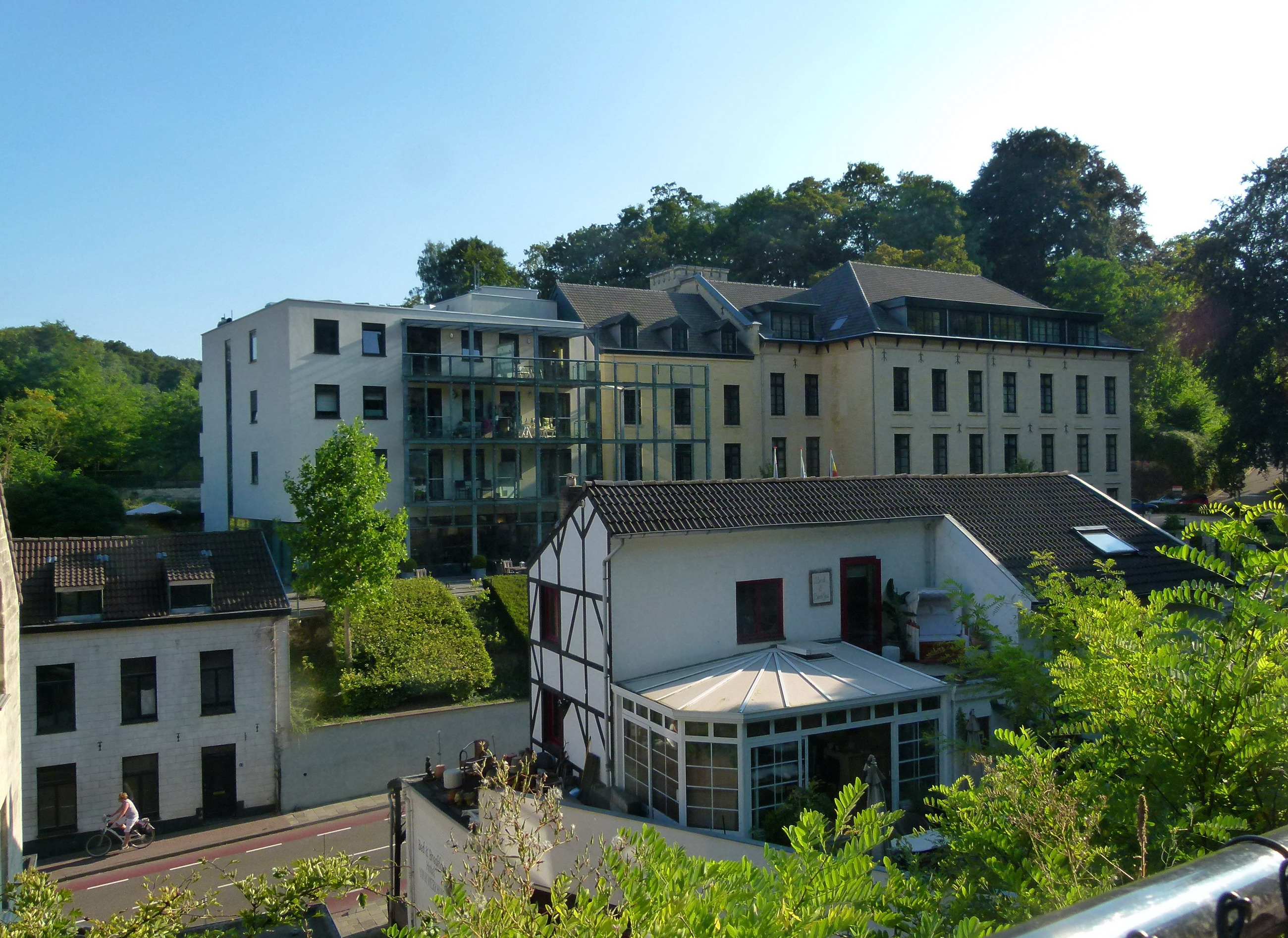 Valkenburg, Limburg, the Netherlands. View from the Southeast of Domaine Cauberg, the former monastery of the fathers of the Congregation of the Sacred Hearts of Jesus and Mary.